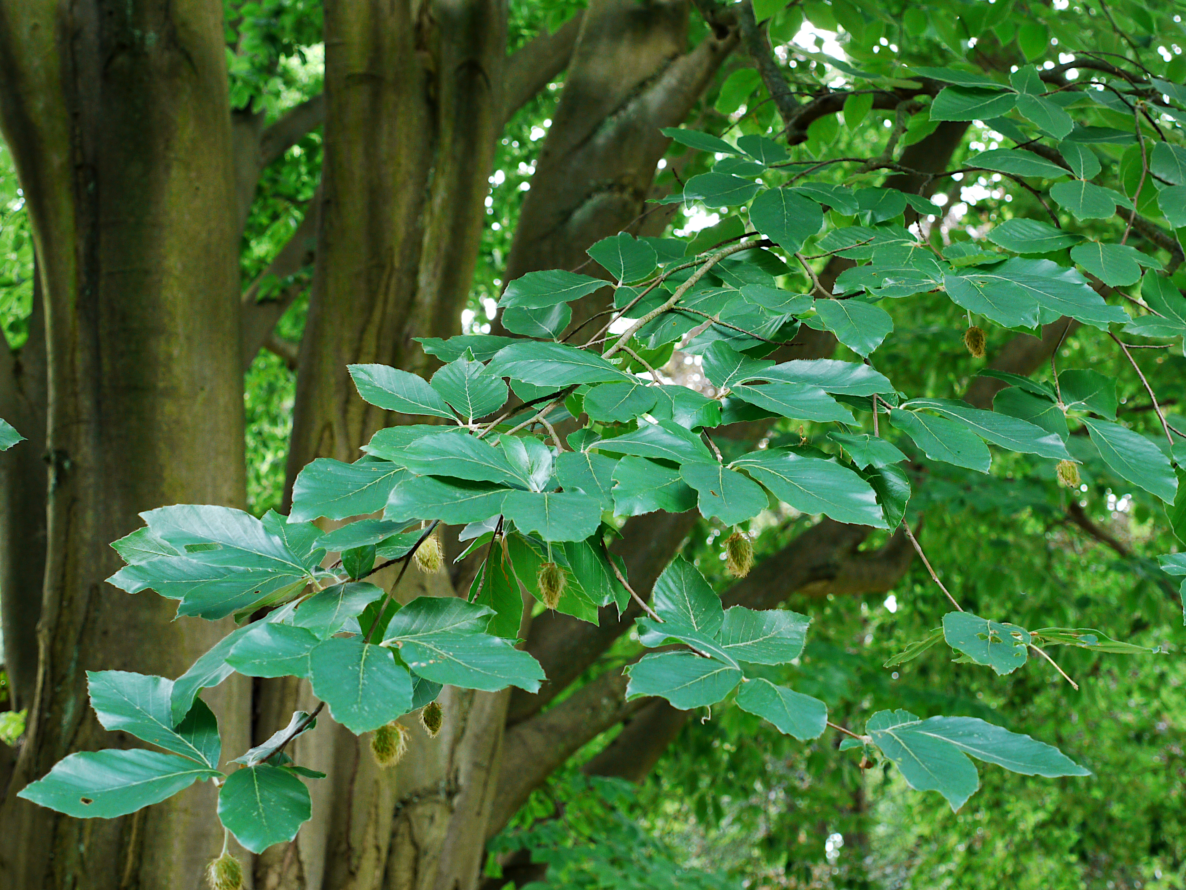 Oriental beech Fagus orientalis, Foliage, fruits and part of the trunk. Photo was taken at Freiburg Botanic Garden.